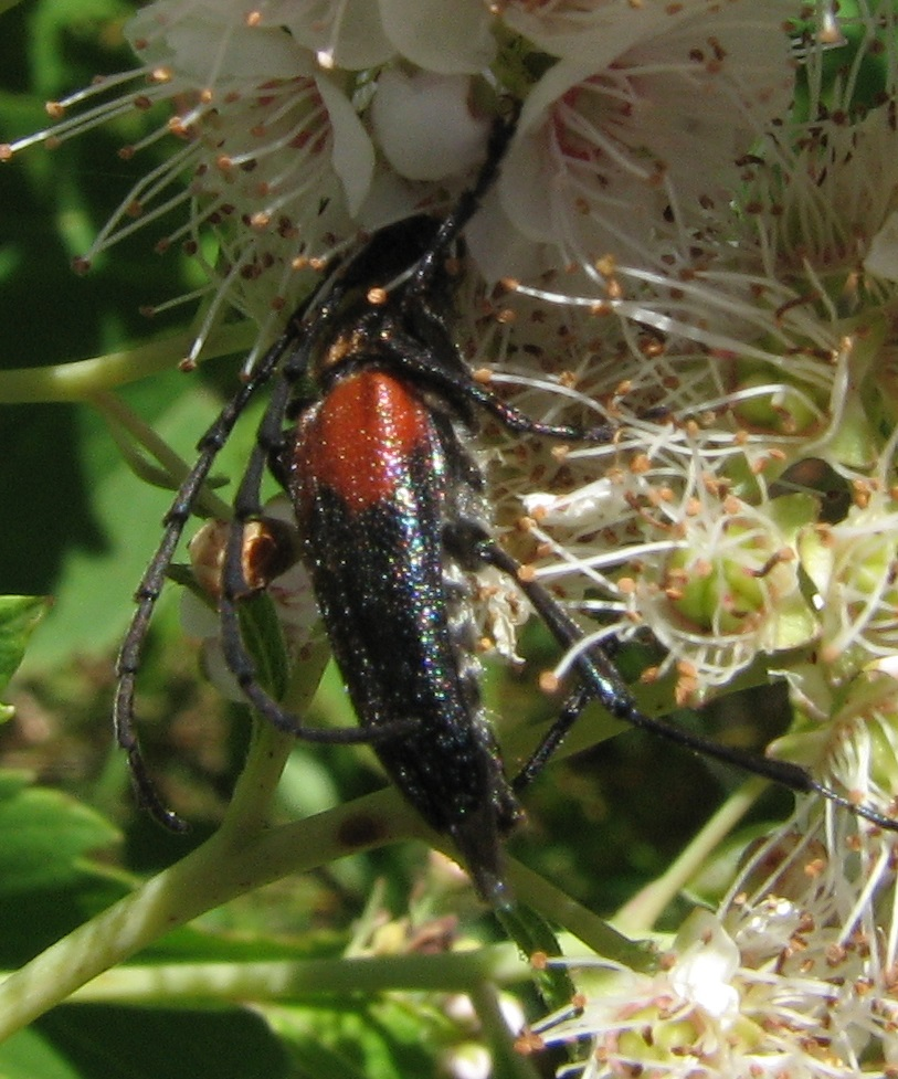 Red-shouldered Pine Borer beetle, Stictoleptura canadensis ssp. canadensis. Schoodic Point, Acadia National Park, Hancock County, Maine, USA.